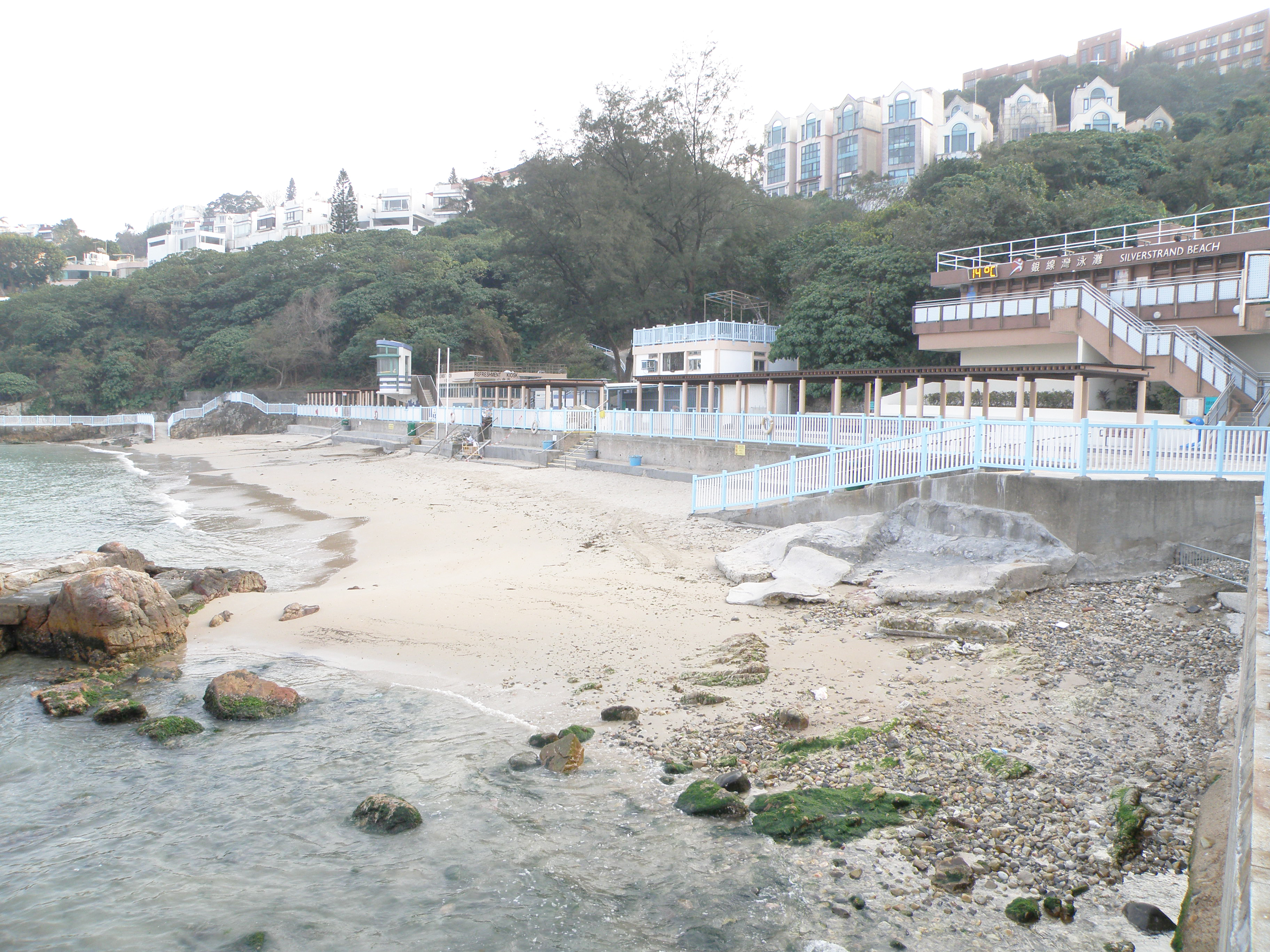 Silverstrand Beach in Sai Kung, Hong Kong.